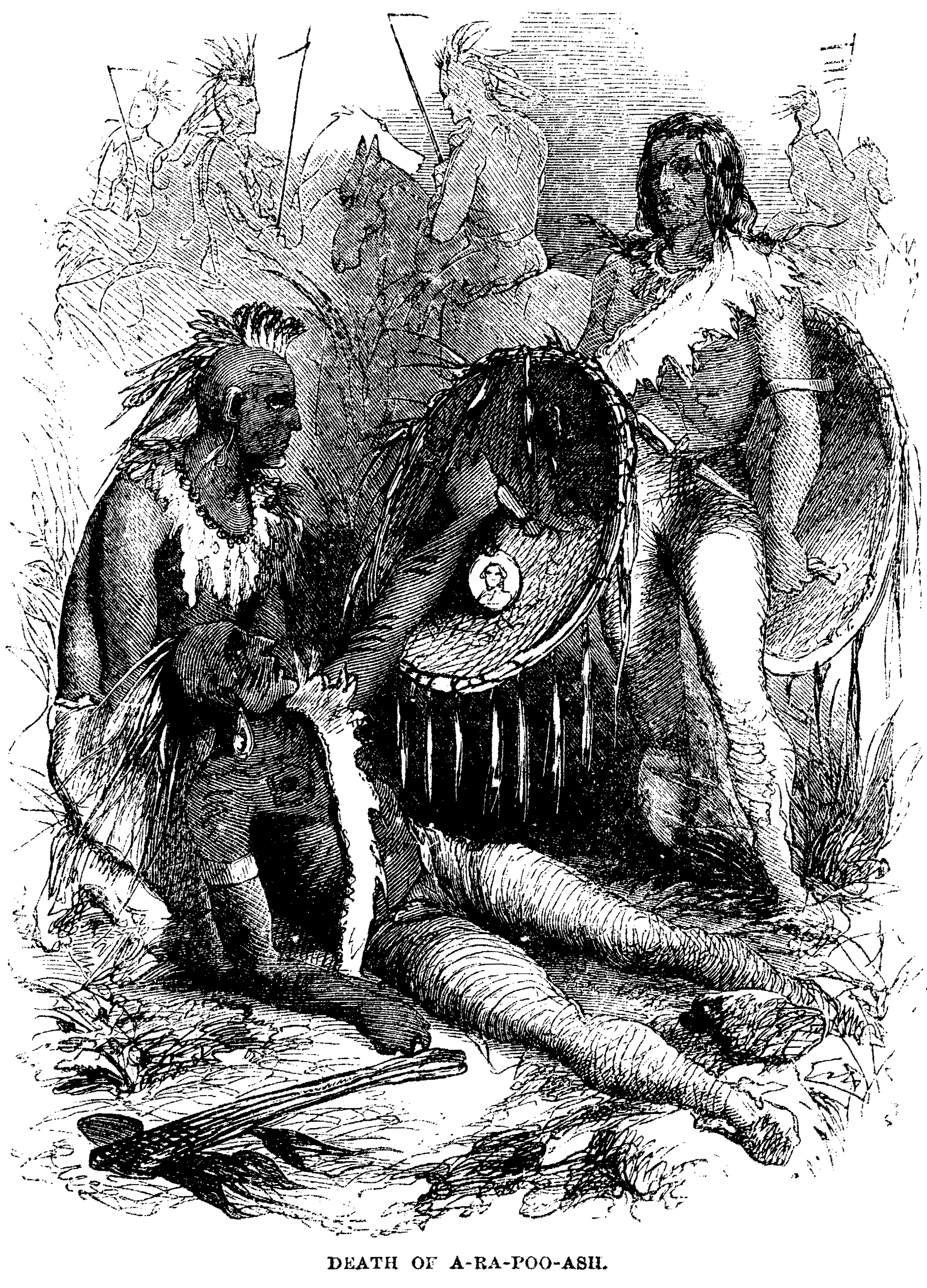 Beckwourth: Death of A-Ra-Poo-Asil - [otherwise spelled Arapooish]